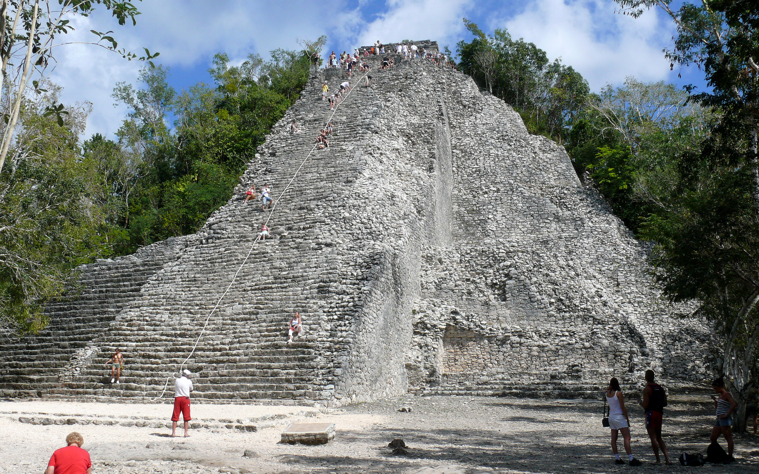 The Nohoch Mul pyramid stands 138 feet tall, and is part of the Mayan ruins at the Cobá archeological site. Photo taken with a Panasonic Lumix DMC-FZ50 in Quintana Roo, Mexico.